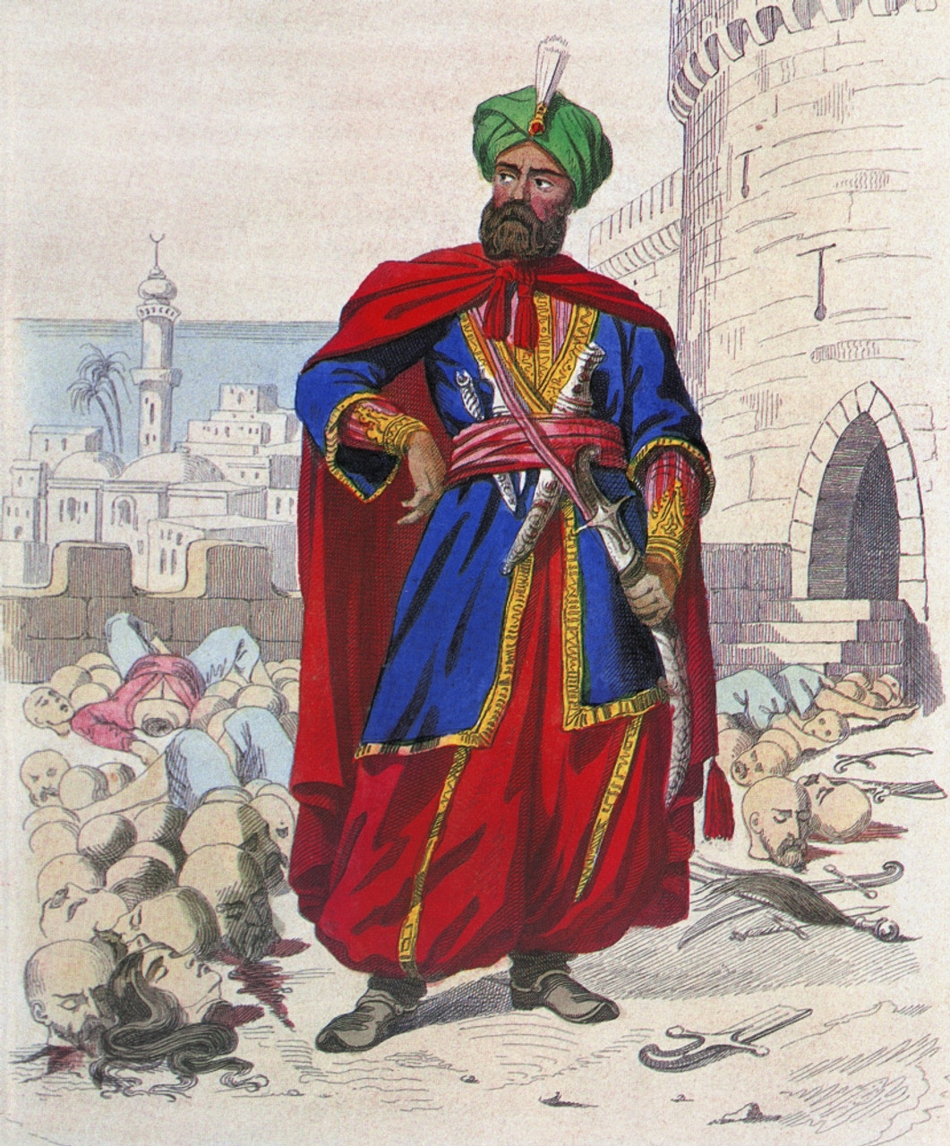 Illustration in 'Historic des Pirates and Corsaires' by P. Christain.